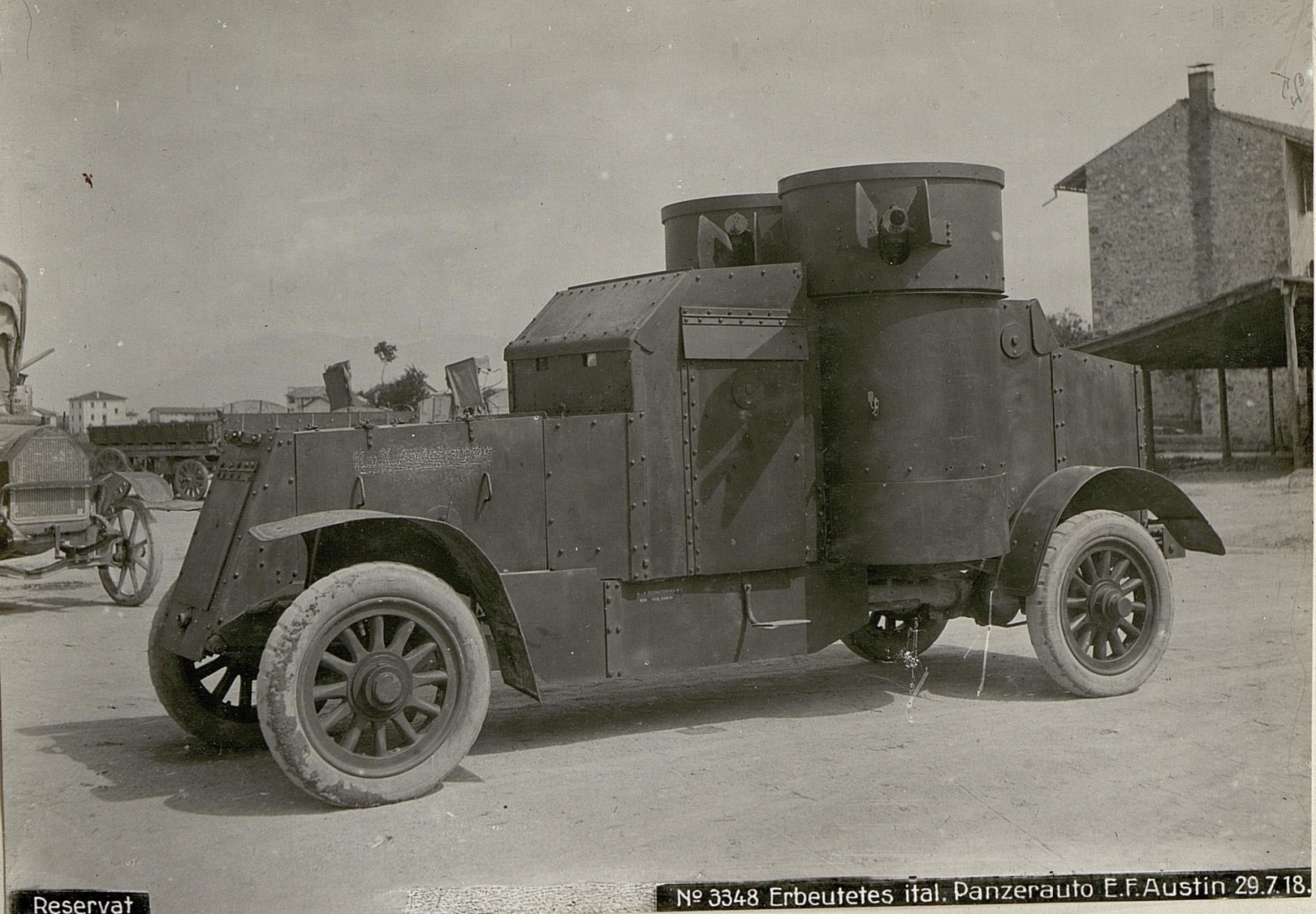 Captured Russian (not Italian) Austin the 3rd series armoured car.